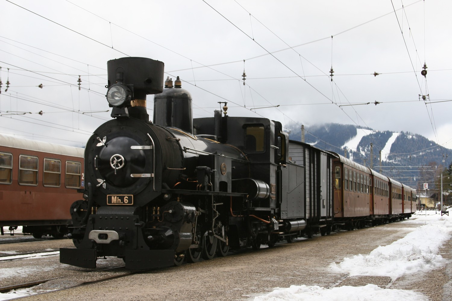 en: Mariazellerbahn vintage train "Panoramic 760" with steam engine Mh6 in Mariazell station, Styria, Austria. de: Schmalspur-Touristikzug "Panoramic 760" mit Museumslokomotive Mh.6 im Bahnhof Mariazell